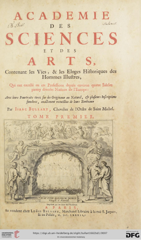 This is a photo of the title page of the two-volume book, Académie des Sciences et des Arts by Isaac Bullart. It contains 279 biographies of scholars and artists and is one of the most important biographical compendia of the seventeenth century.